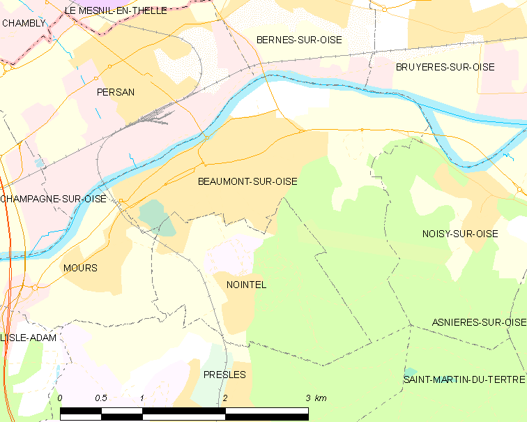 Map of French municipality Beaumont-sur-Oise